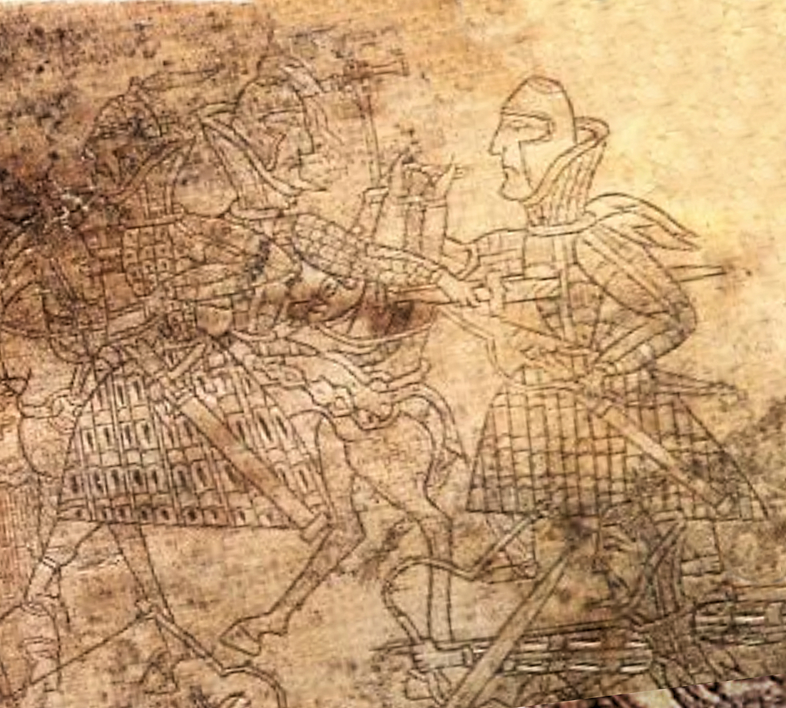 Orlat plaque detail